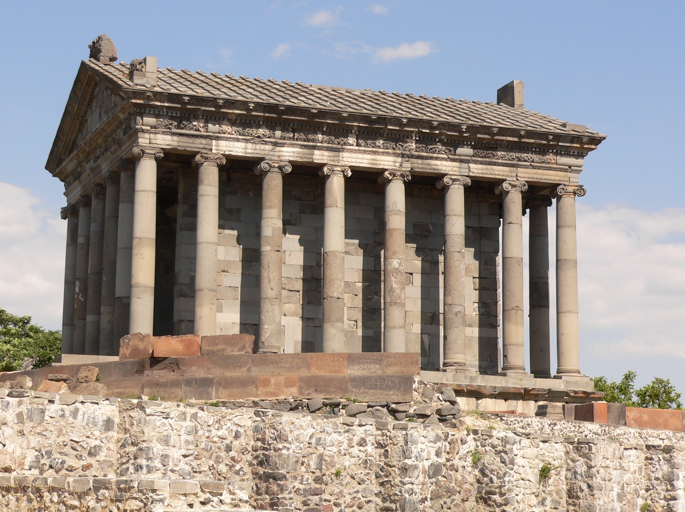 Garni Temple. Garni,Kotayk region,Armenia.